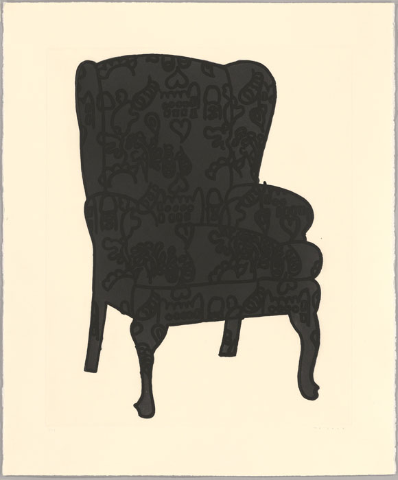 Etching by Humphrey Ocean, copyright owned by Humphrey Ocean, permission given to publish on Wikipedia